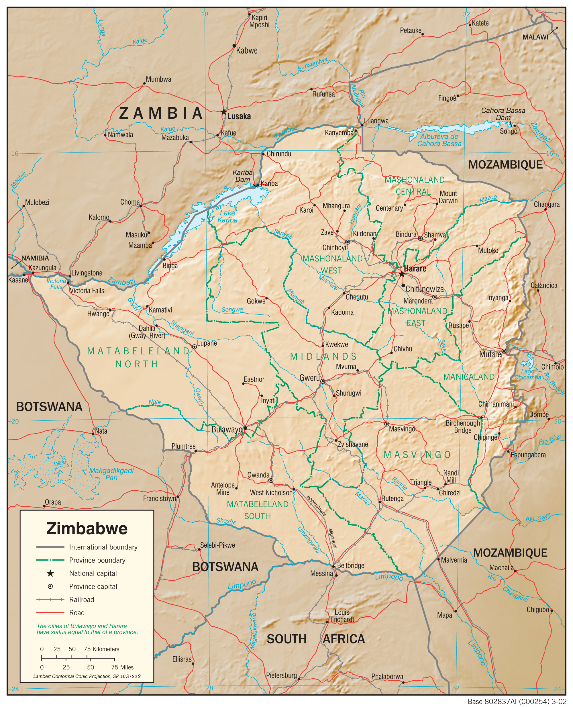 Topographic map of Zimbabwe (shaded relief), 2002.